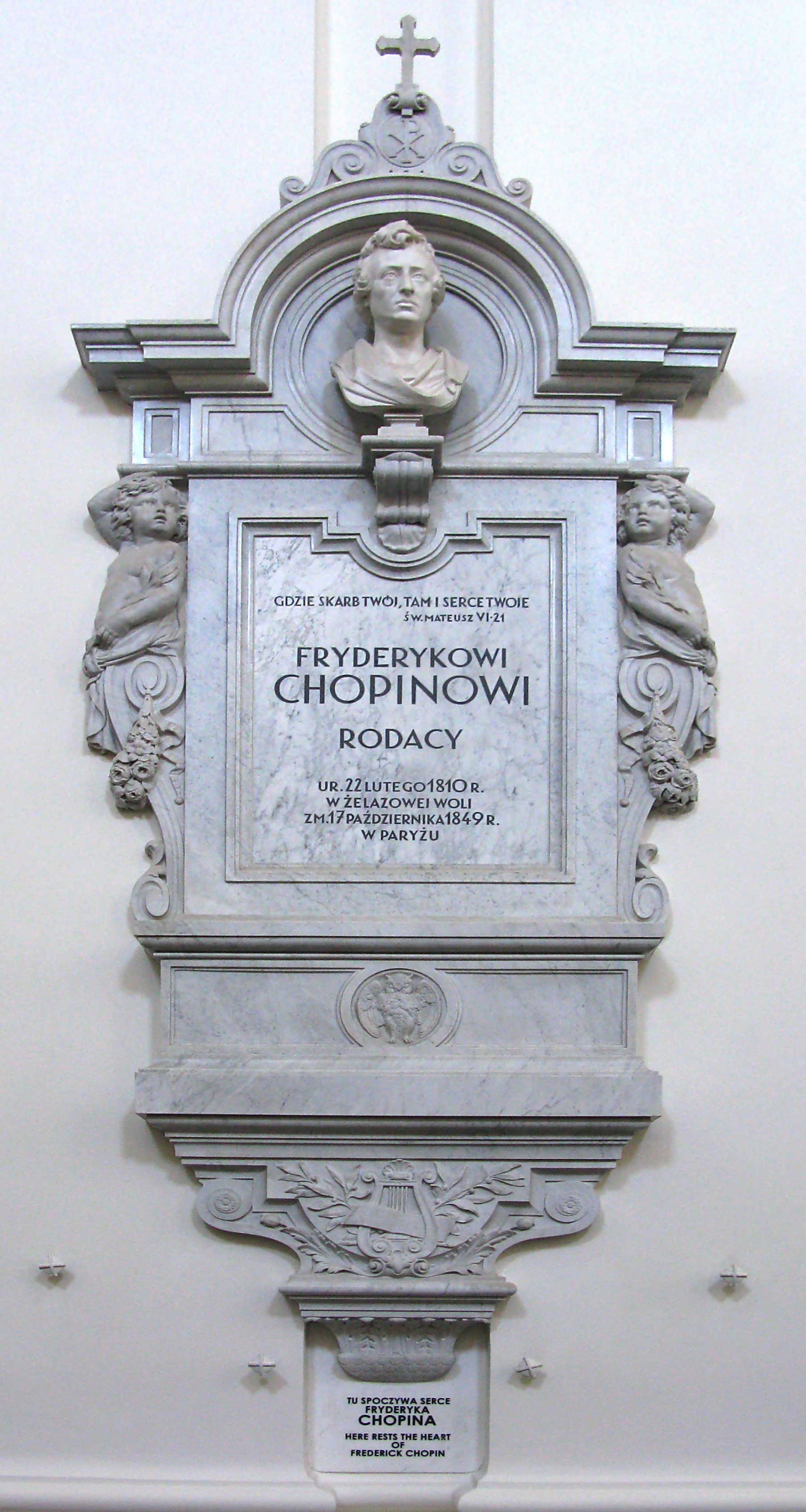 Epitaph for heart of Frédéric Chopin in Holy Cross Church in Warsaw (sculptor - Leonard Marconi).